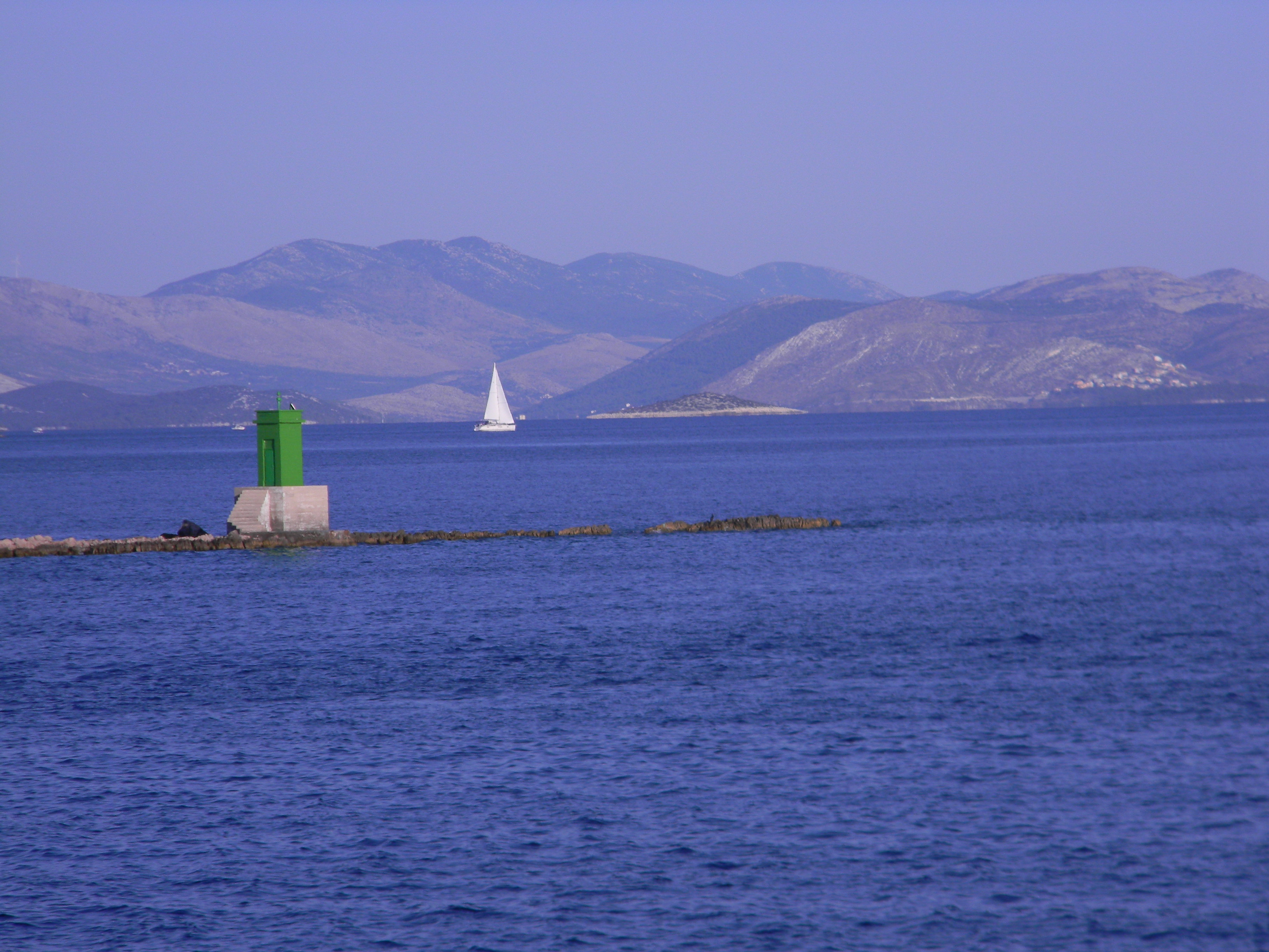 kaprije - lighthouse south - to reach that island you have to pass that spot.